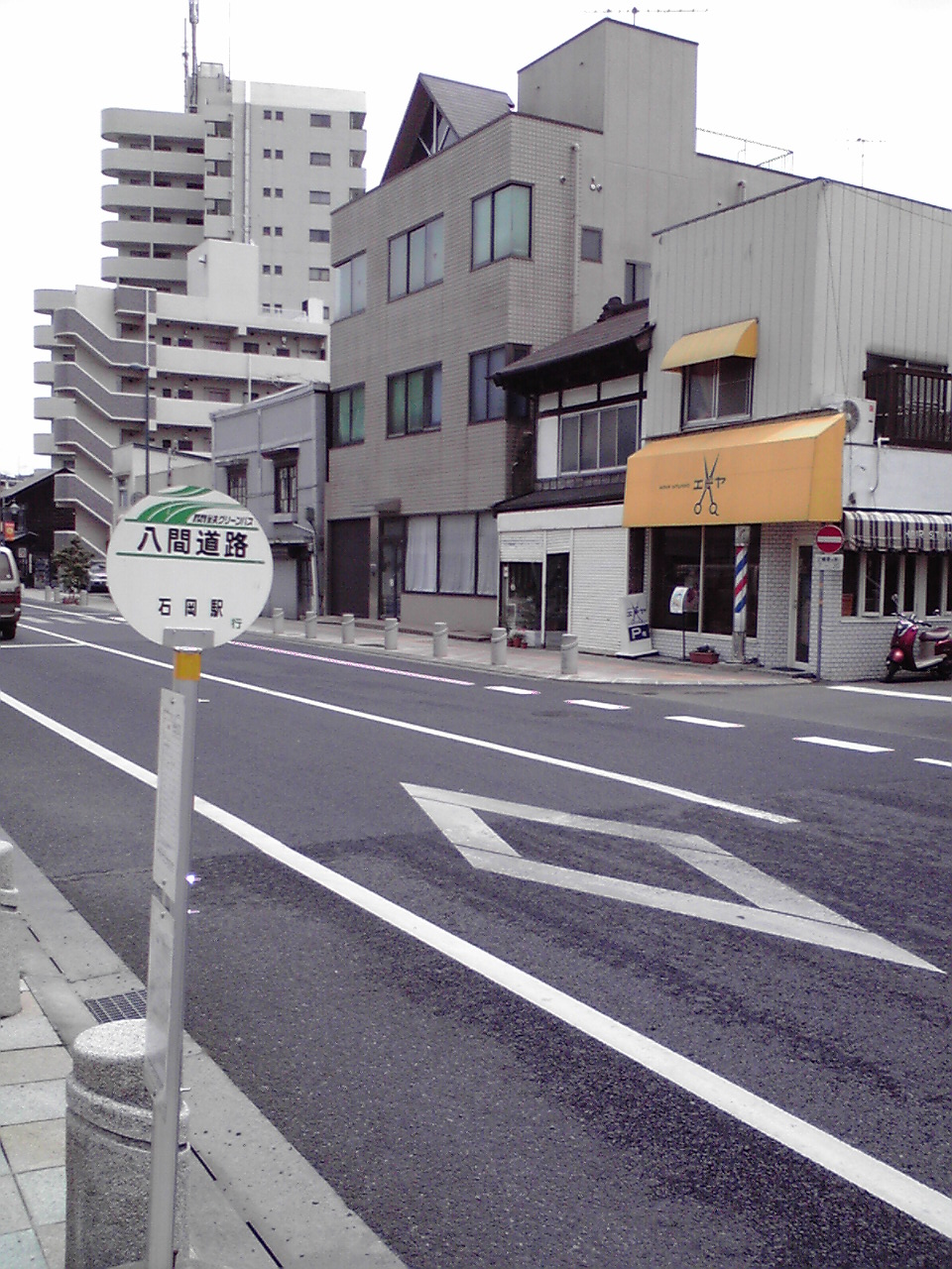 The Ibaraki Prefectural Road Route 277